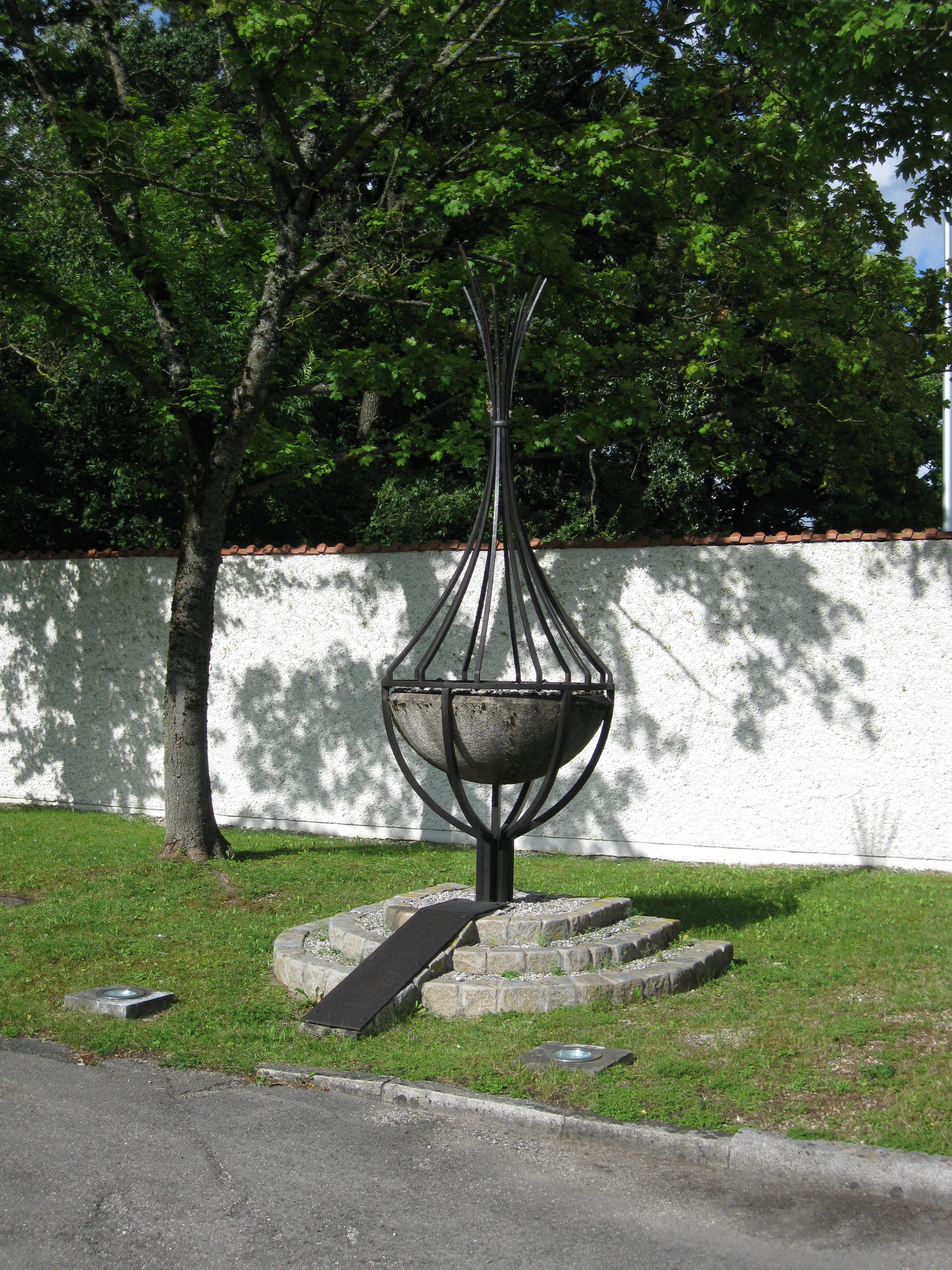 Memorial for the victims of palestine terrorists in munich 1972, at the airport in Fürstenfeldbruck, where the attempt of the police to free the athlets ended in a catastrophe.